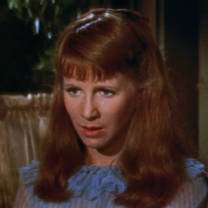 Cropped screenshot of Julie Harris in the trailer for the film East of Eden